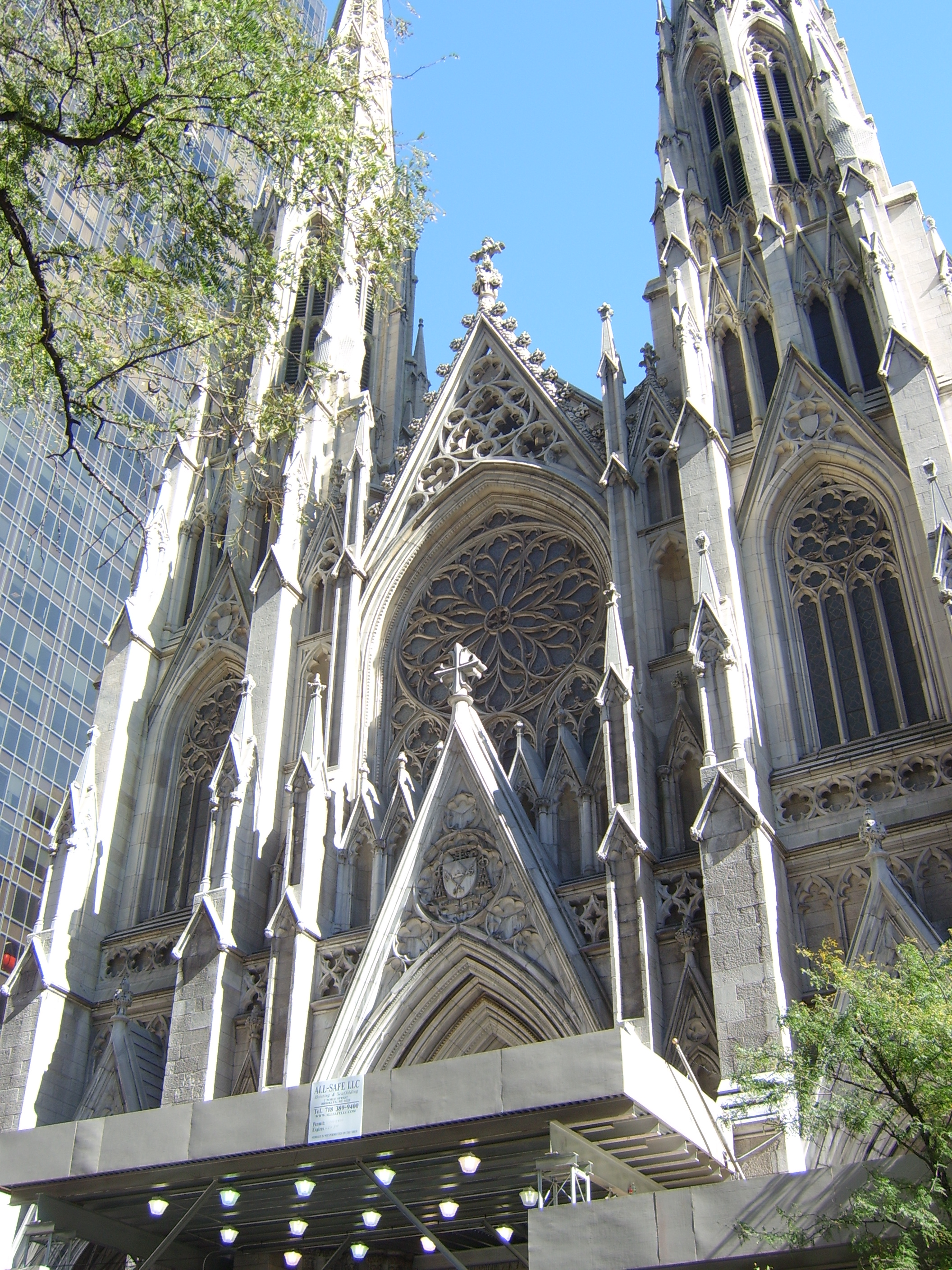 Category:Manhattan, New York City